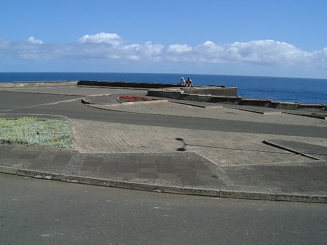 please help to categorize- respect the stress